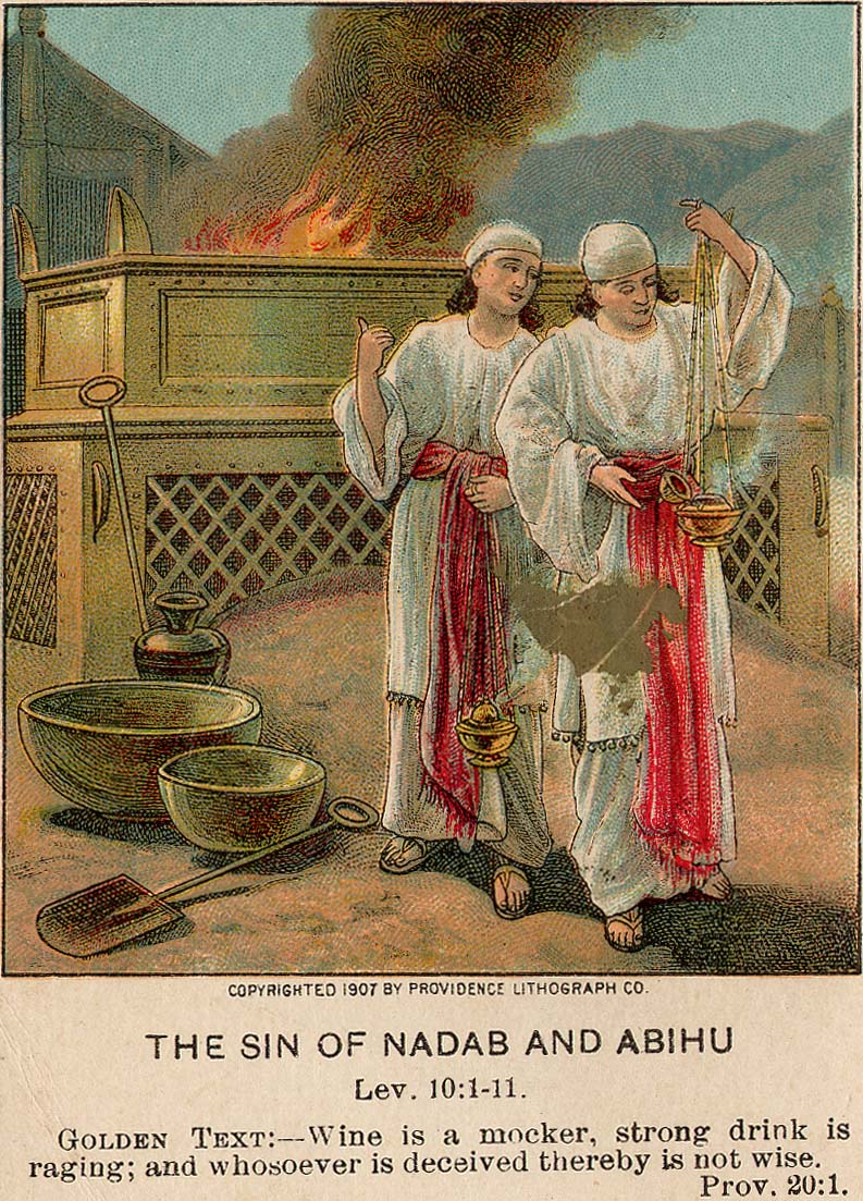 The Sin of Nadab and Abihu, illustration from a Bible card published in 1907